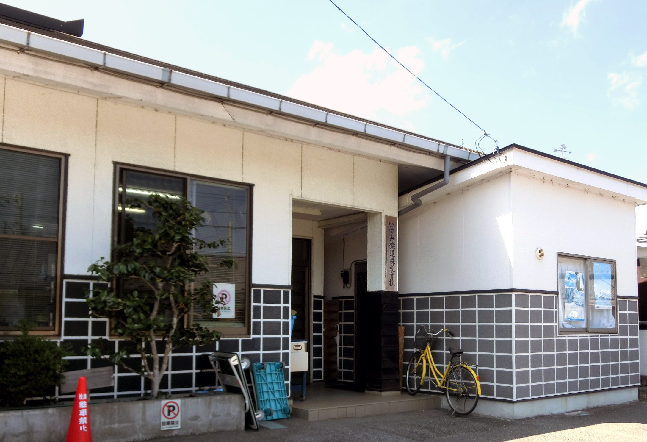 The head office of Isumi Railway adjoining Otaki Station in Chiba Prefecture, Japan